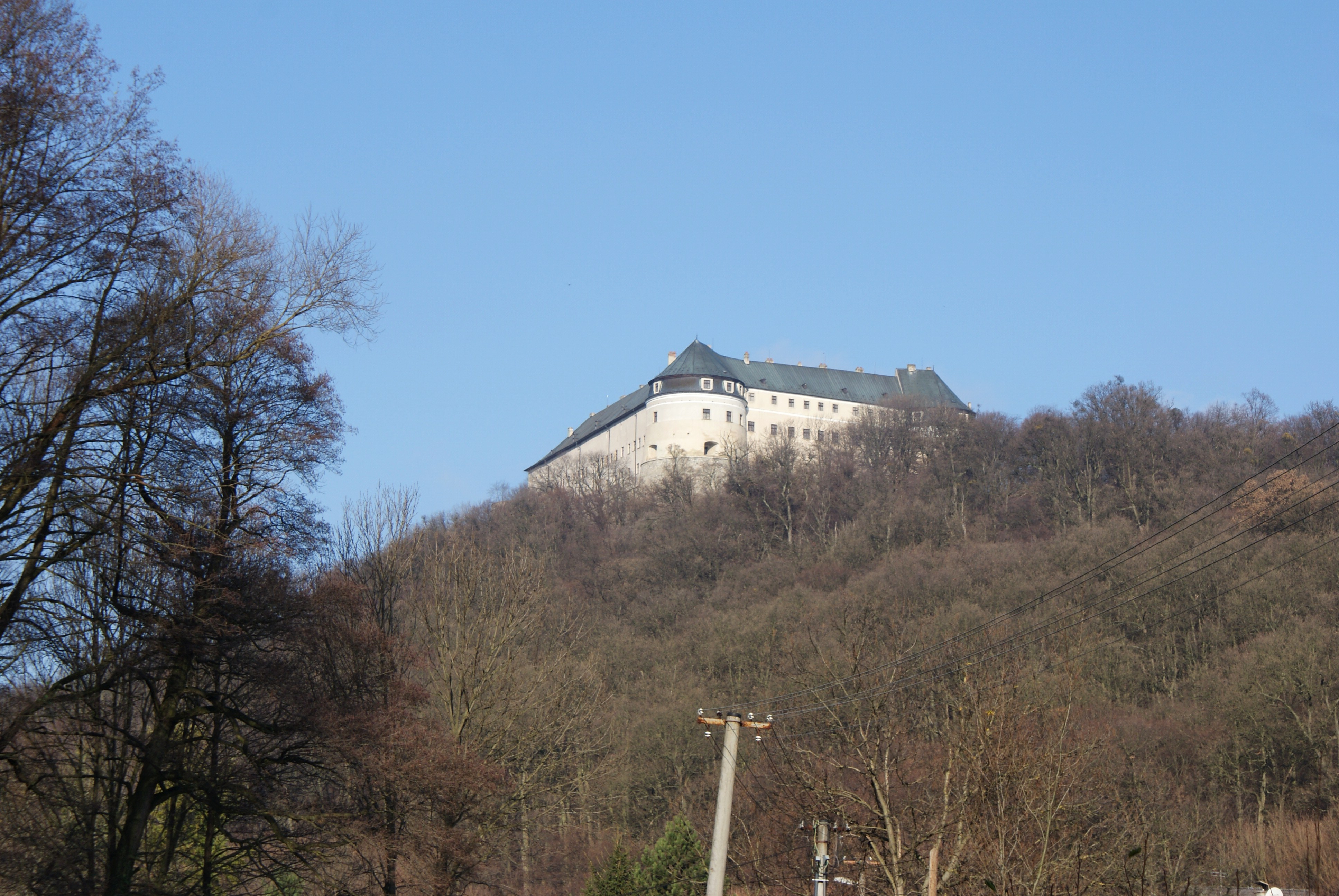 Červený Kameň castle, Pezinok district, Slovakia, seen from the village of Píla.